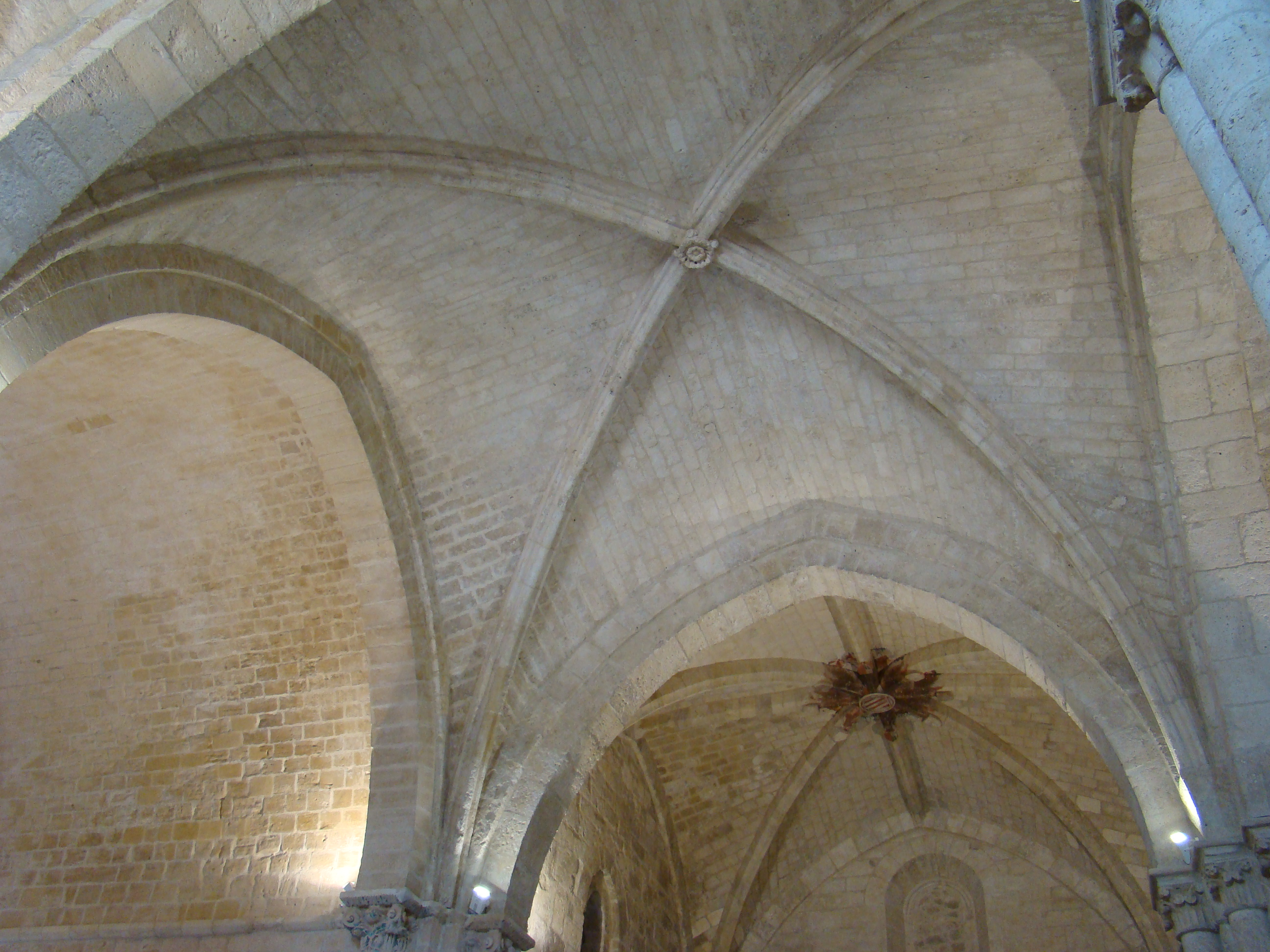 Vault in the church of the monastery of Santa María de Retuerta (province of Valladolid). This is a monastery which belongs to the premonstratensian order, built in late romanic style and founded by Sancho Ansúrez, count Ansúrez's grandson.